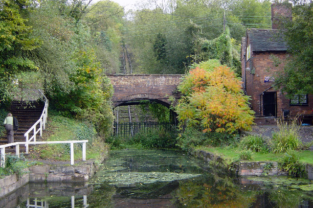 Hay Inclined plane and Canal basin, Coalport. This incline plane linked the Blists Hill industrial site with the canal above the north bank of the River Severn. The building on the right contains the entry to the "Tar Tunnel" originally driven northwards to connect with Blists Hill it revealed an economically viable deposity of tar instead.